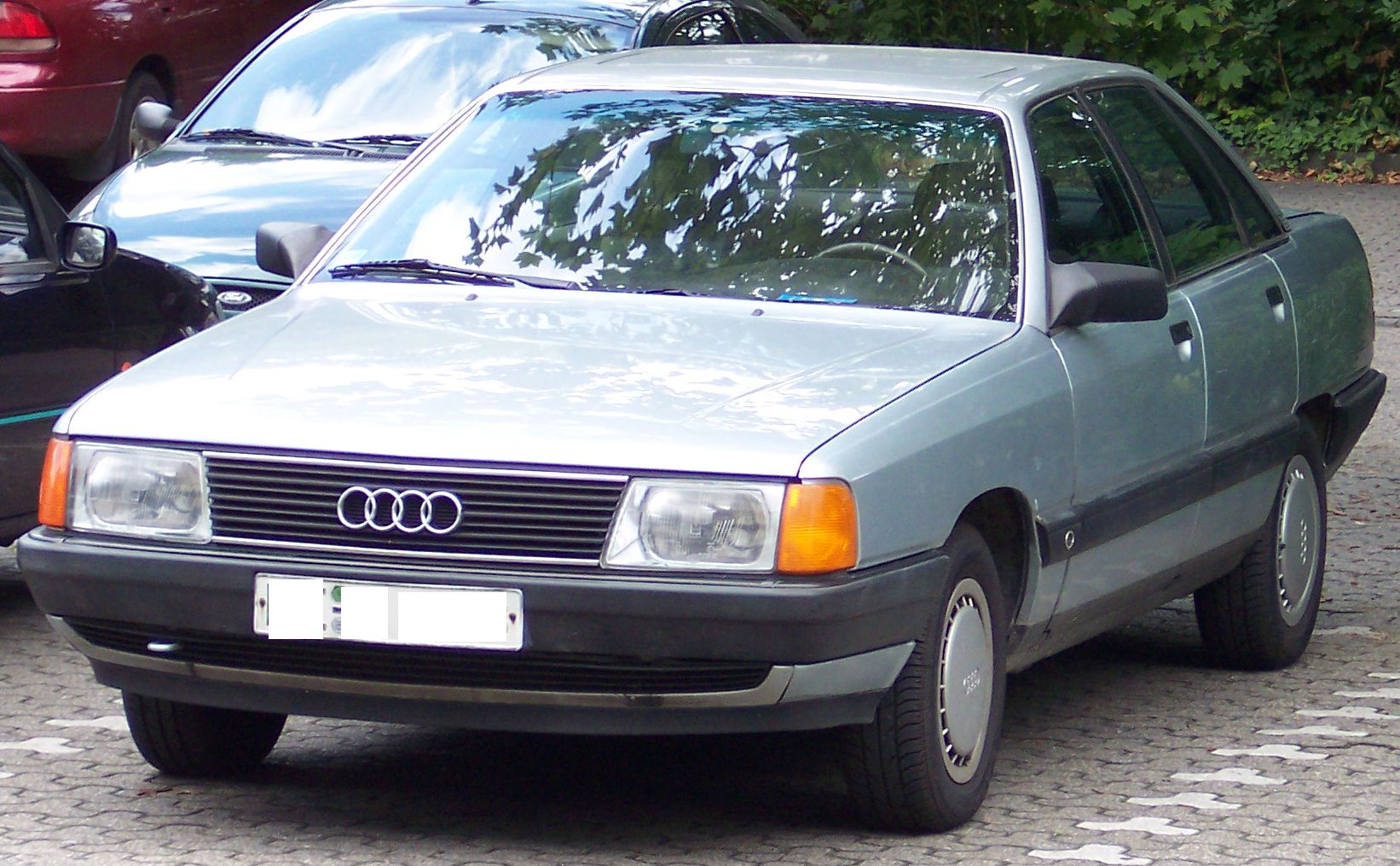 Audi 100